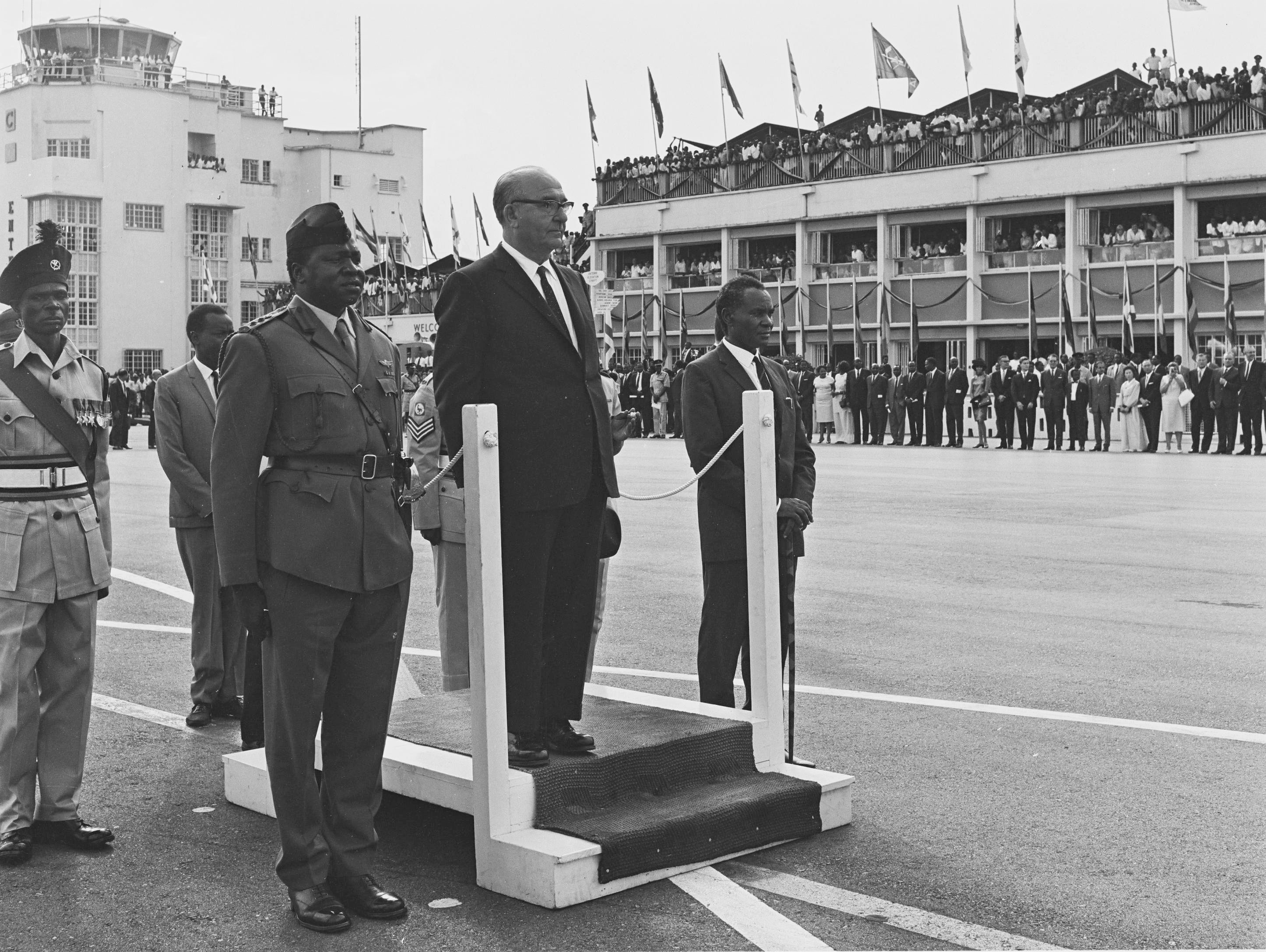 P.M. LEVY ESHKOL WITH THE UGANDA CHIEF OF STAFF IDI AMIN AND UGANDA VICE PRESIDENT JOHN BABIIHA AFTER HIS ARRIVAL AT ENTEBBE AIRPORT.